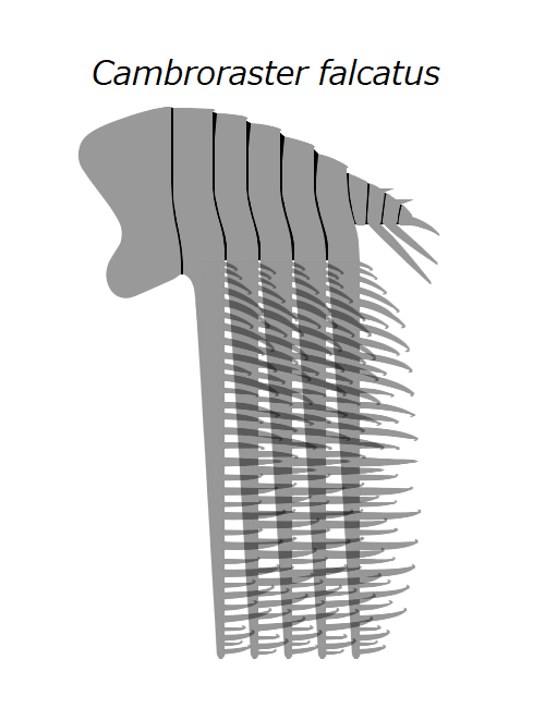 Frontal appendages of the radiodont species Cambroraster falcatus.